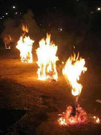 NOWROUZ-navroz- 4shanbeh suri 13bedar